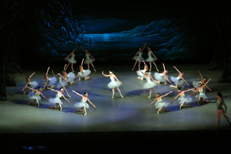 Nino Ananiashvili in Swan Lake ballet.